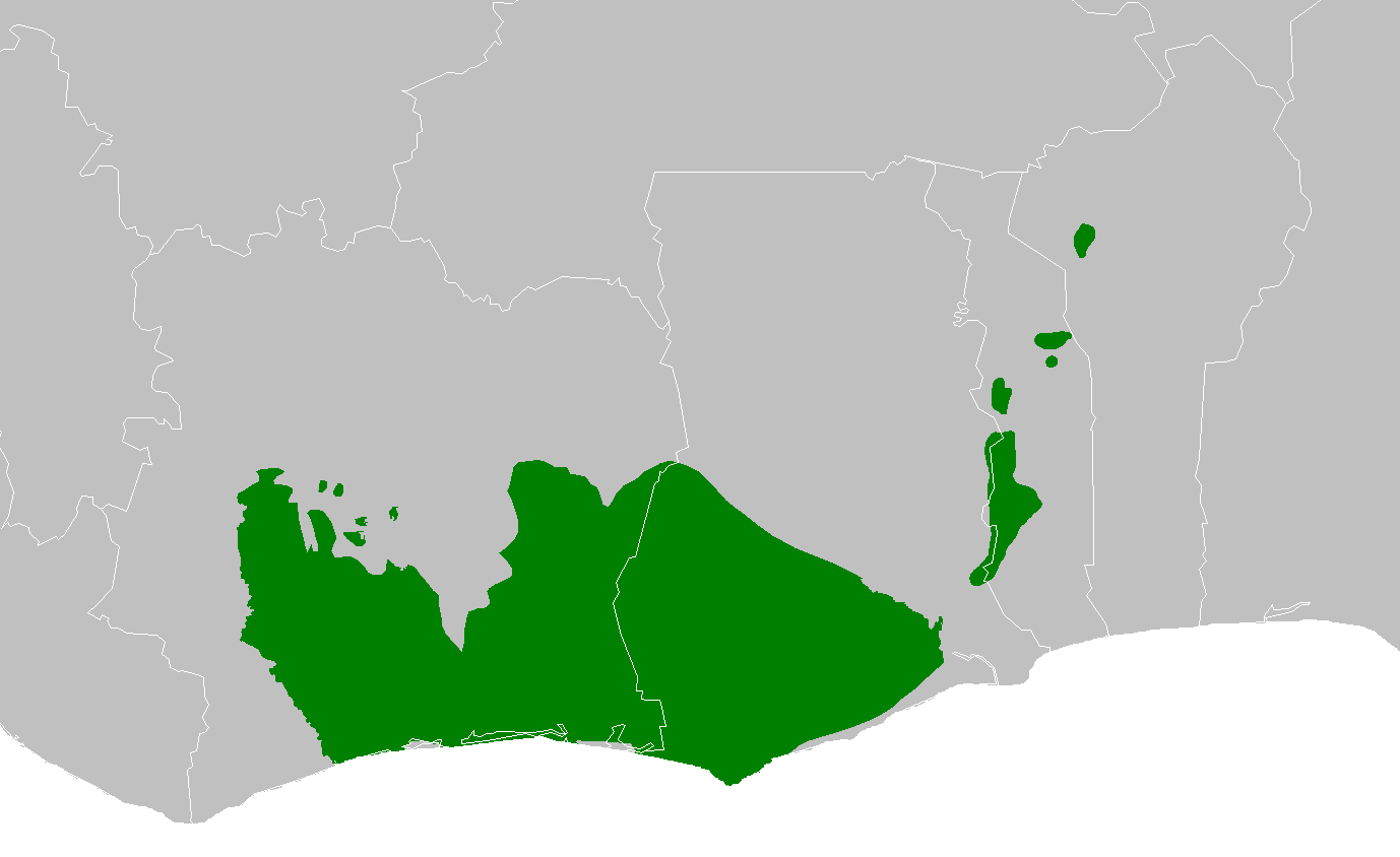 Eastern Guinean forests ecoregion map